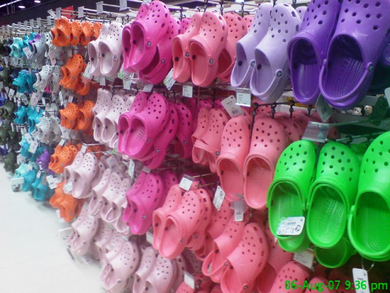 Crocs sold at a store.